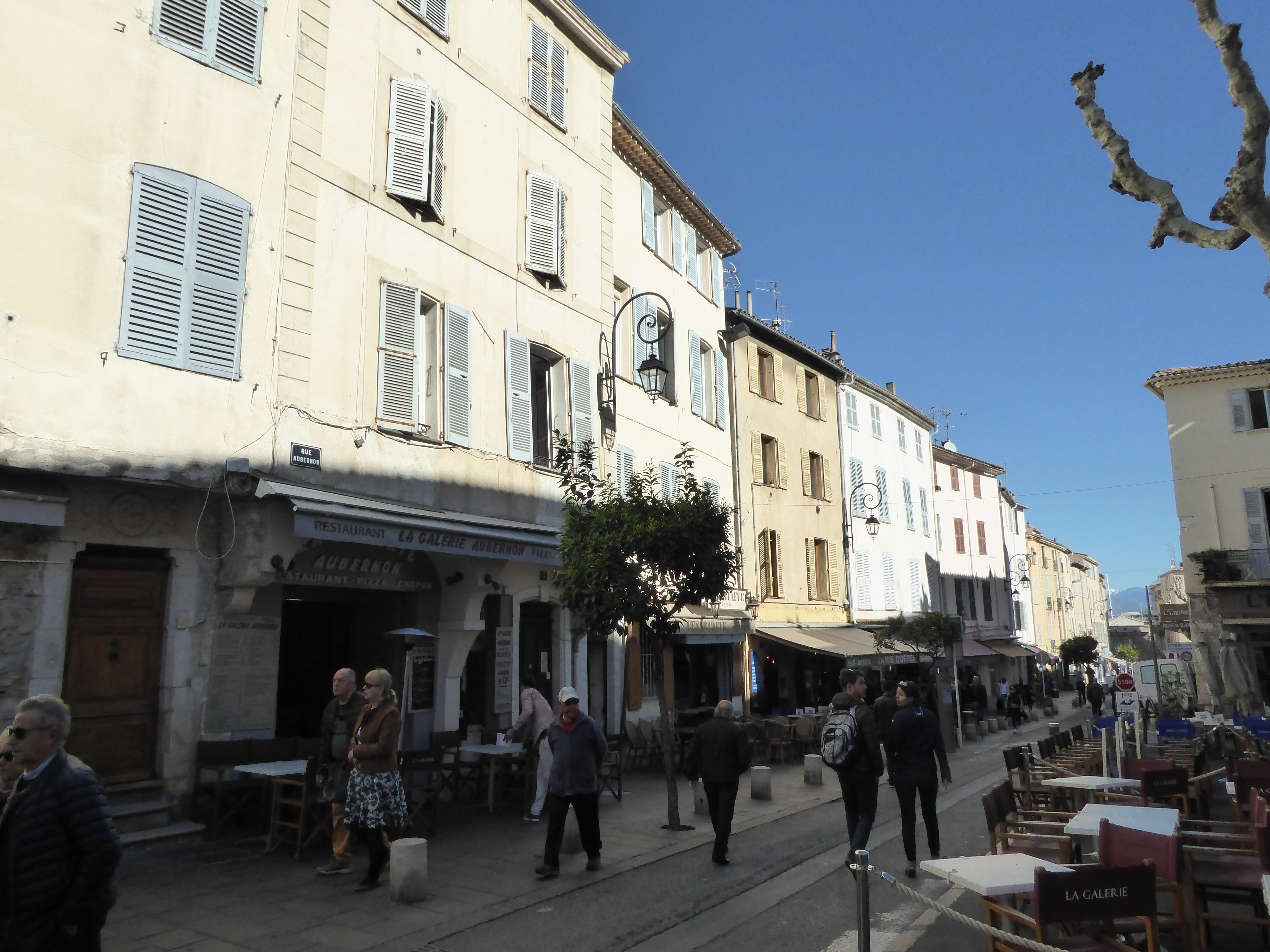 rue Aubernon Antibes